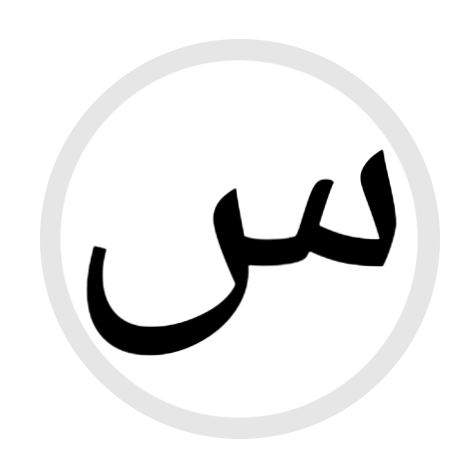 HS Letter (arabic alphabet)